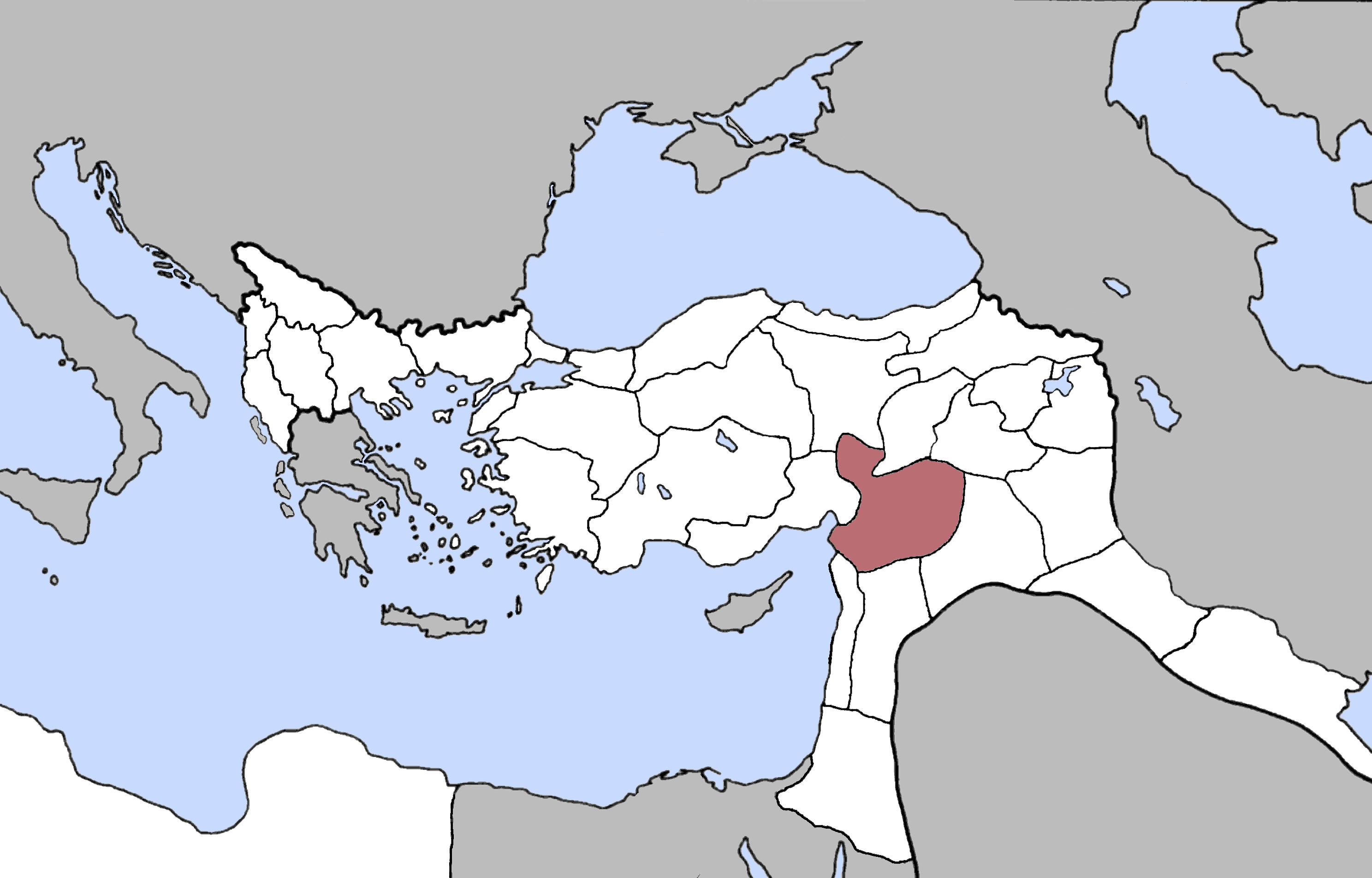 XY Vilayet, Ottoman Empire (1900). Source: An Economic and Social History of the Ottoman Empire, Volume 2 at Google Books By Suraiya Faroqhi, Bruce McGowan, Donald Quataert, Sevket Pamuk